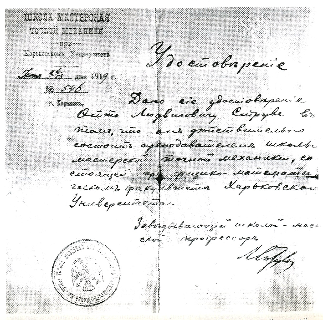 Otto Struve's diploma of trainer at the workshop school of fine mechanics